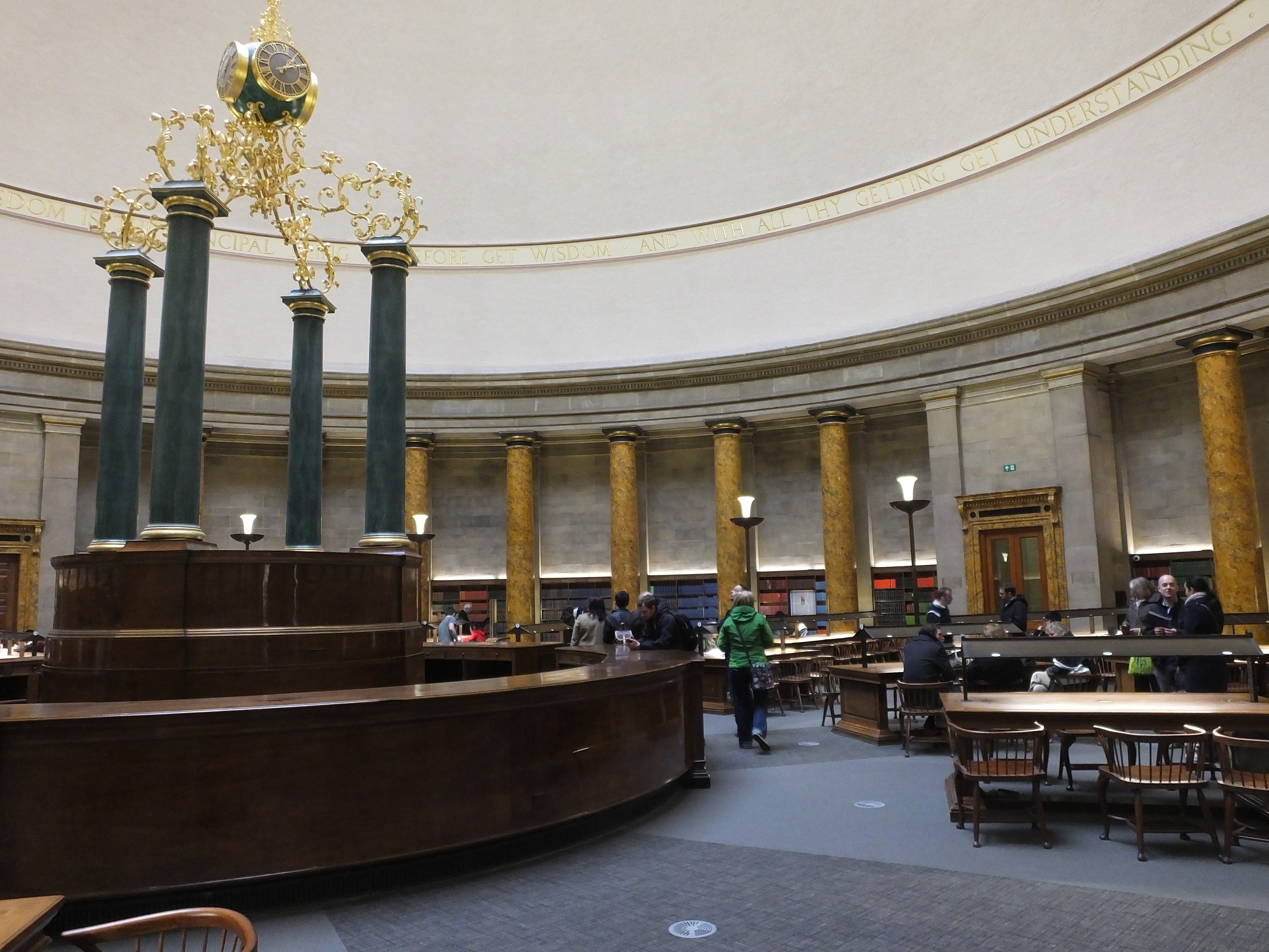 Manchester Central Library re-opened after refurbishment 22 March 2014. The Wolfson Reading Room has been restored to its 1930s condition. Wolfson Reading Room